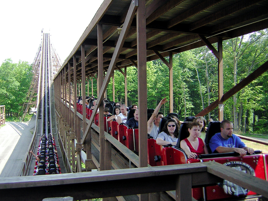 Beast roller coaster at Paramount's Kings Island.